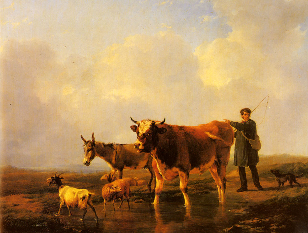 Crossing The Marsh